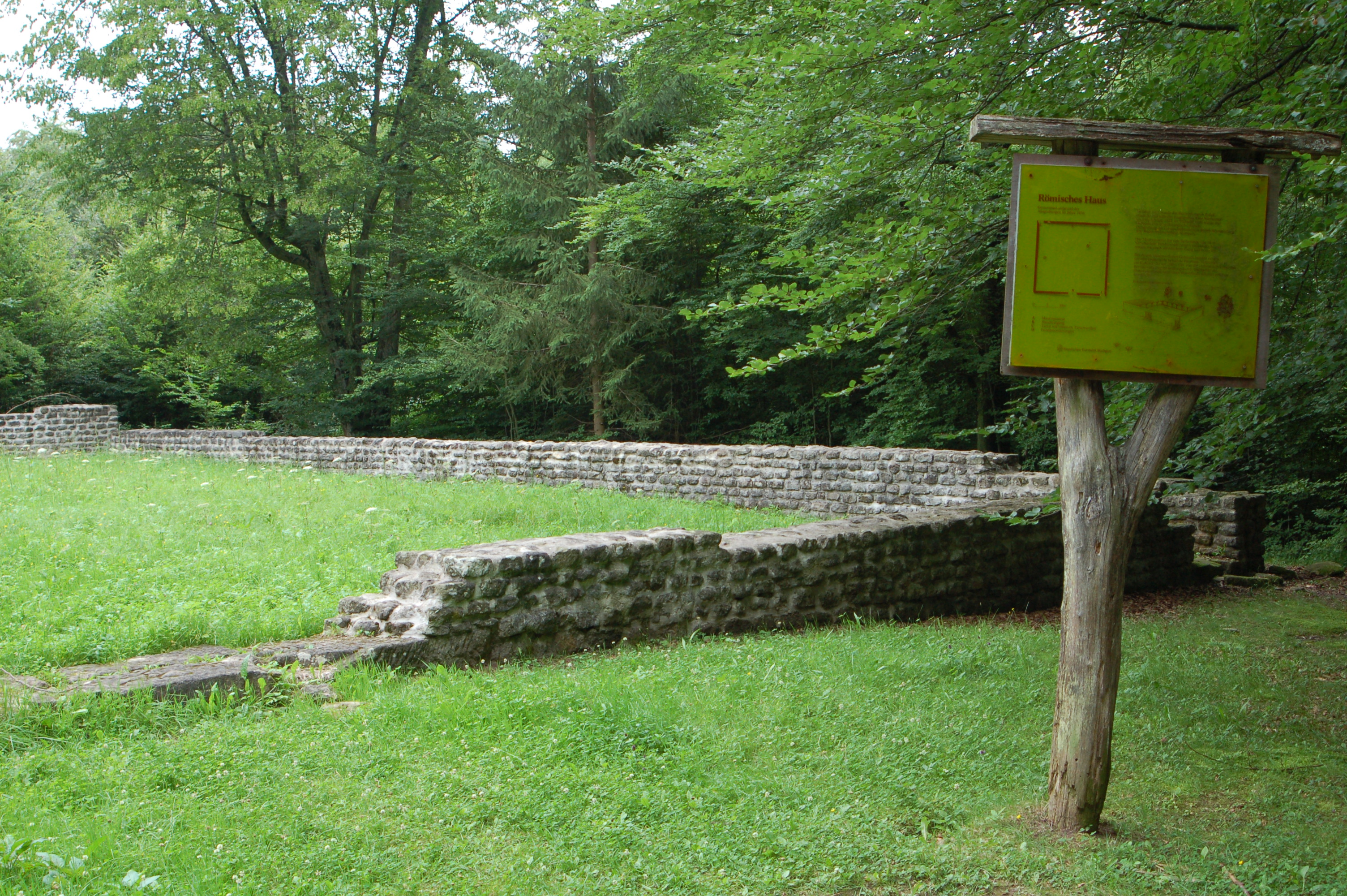 Ruins of the roman house in the Rotwildpark near Stuttgart